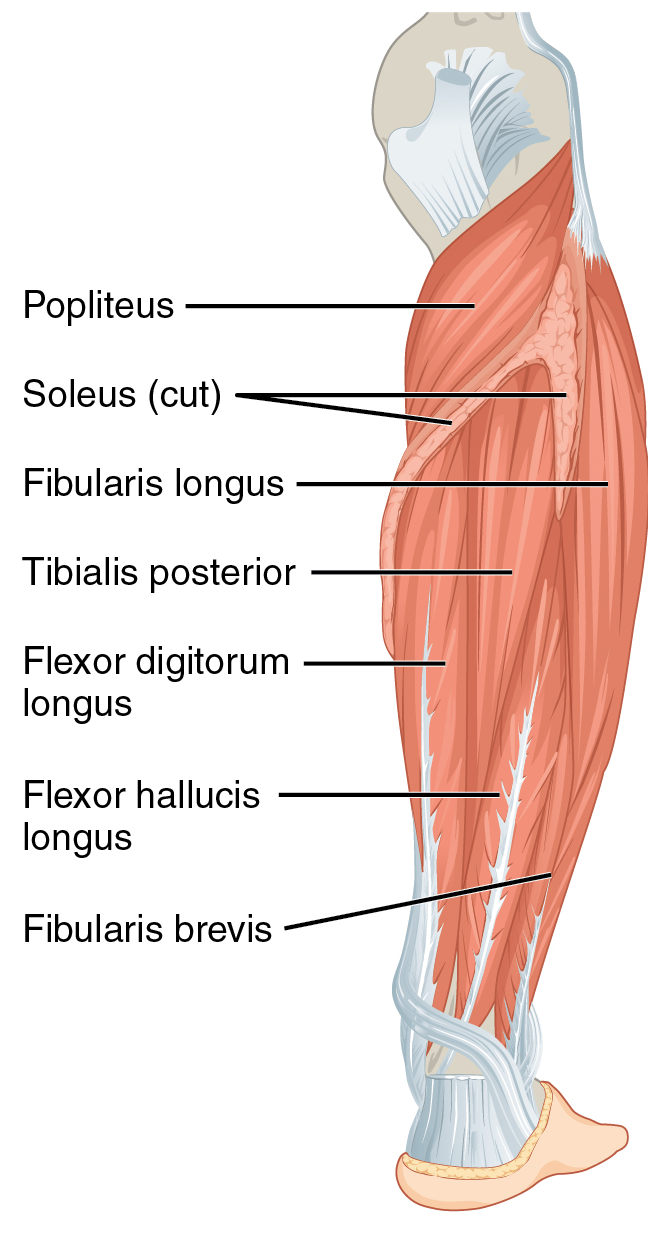 Caption: The muscles of the anterior compartment of the lower leg are generally responsible for dorsiflexion, and the muscles of the posterior compartment of the lower leg are generally responsible for plantar flexion. The lateral and medial muscles in both compartments invert, evert, and rotate the foot. URL: Other versions